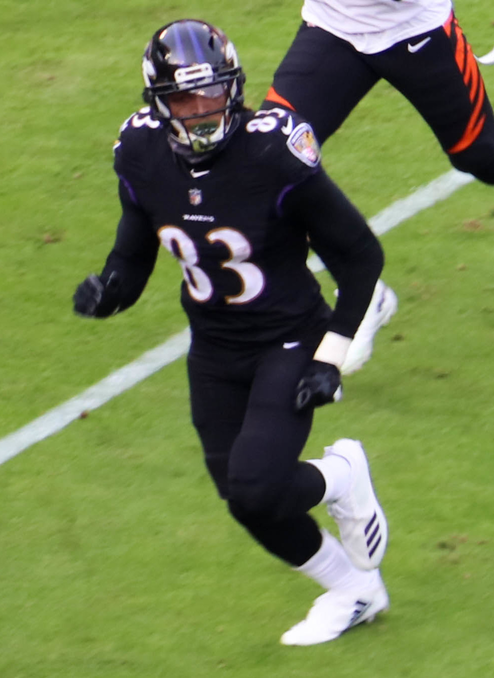 Lamar Jackson of the Baltimore Ravens runs the ball against the Cincinnati Bengals during a 2018 game at M&T Bank Stadium in Baltimore.